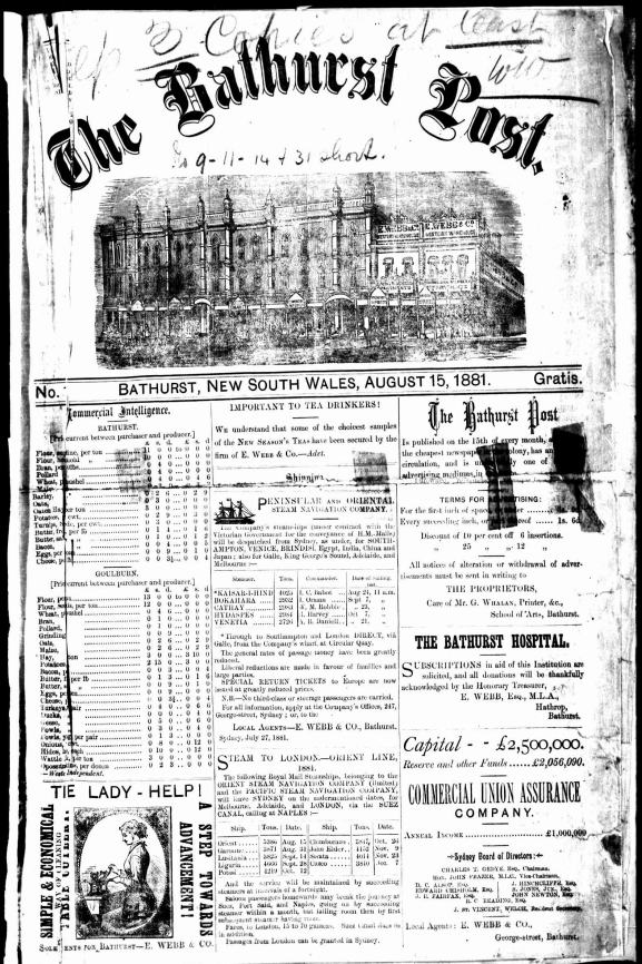 Front cover of the Bathurst Post on 15 August 1881